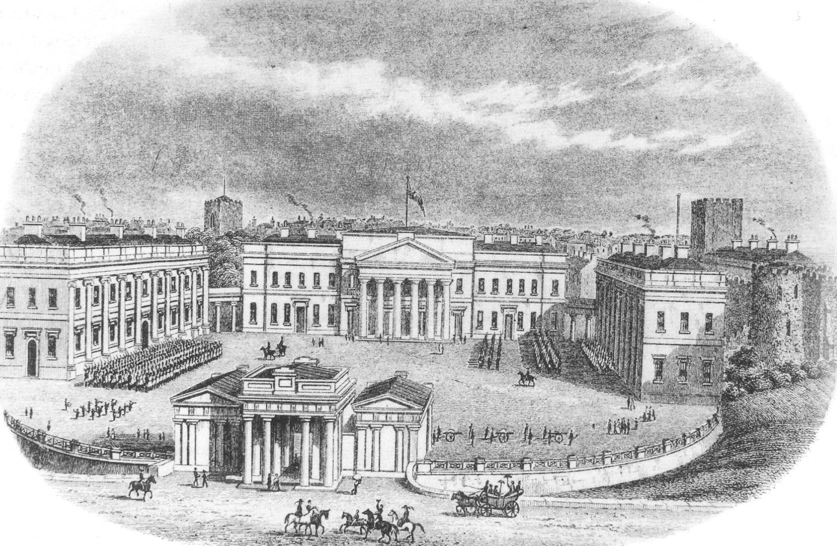 Depiction of the courtyard of Chester Castle in about 1869. Scanned and enhanced by myself.